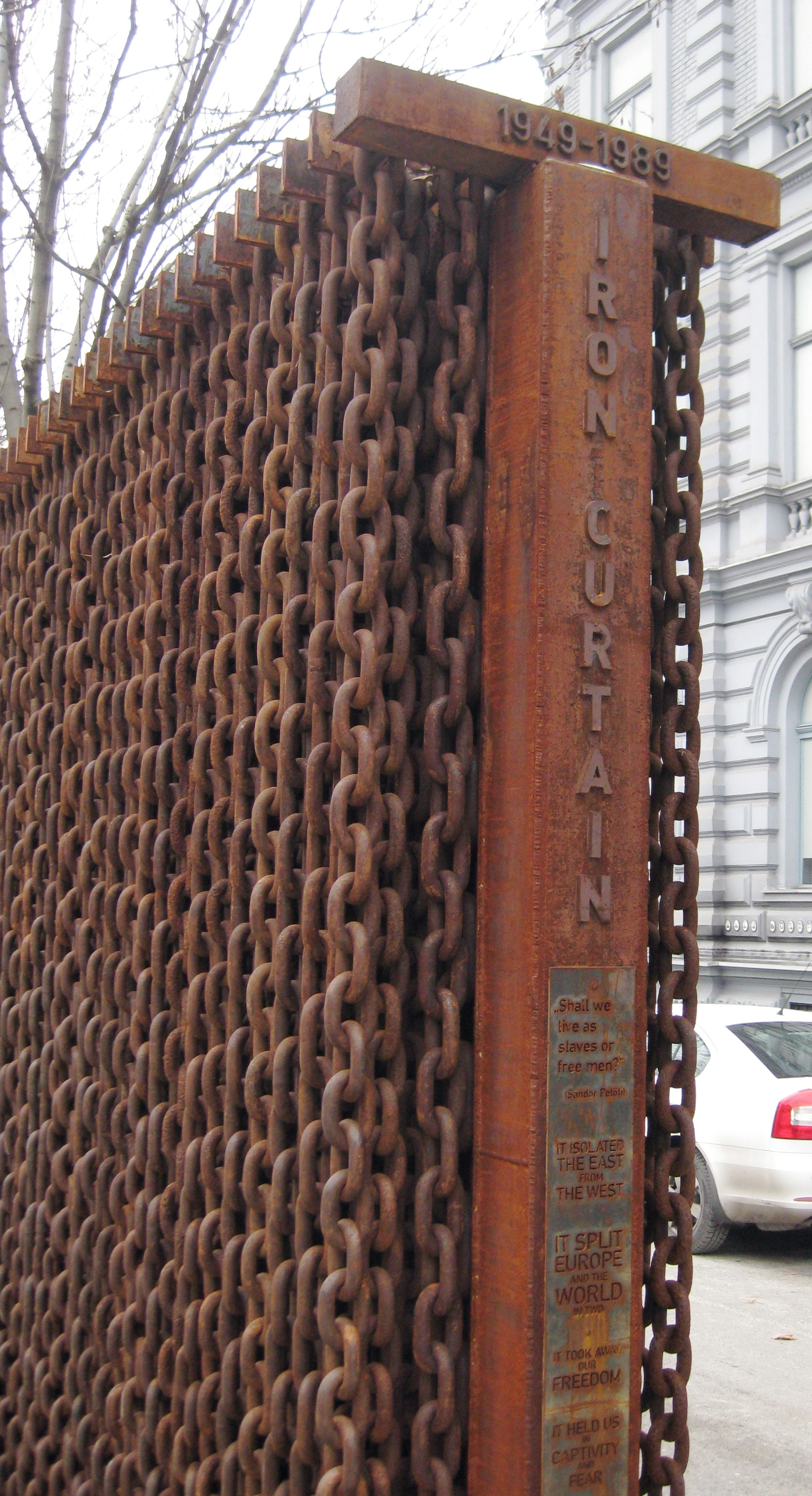 Small monument in Budapest.